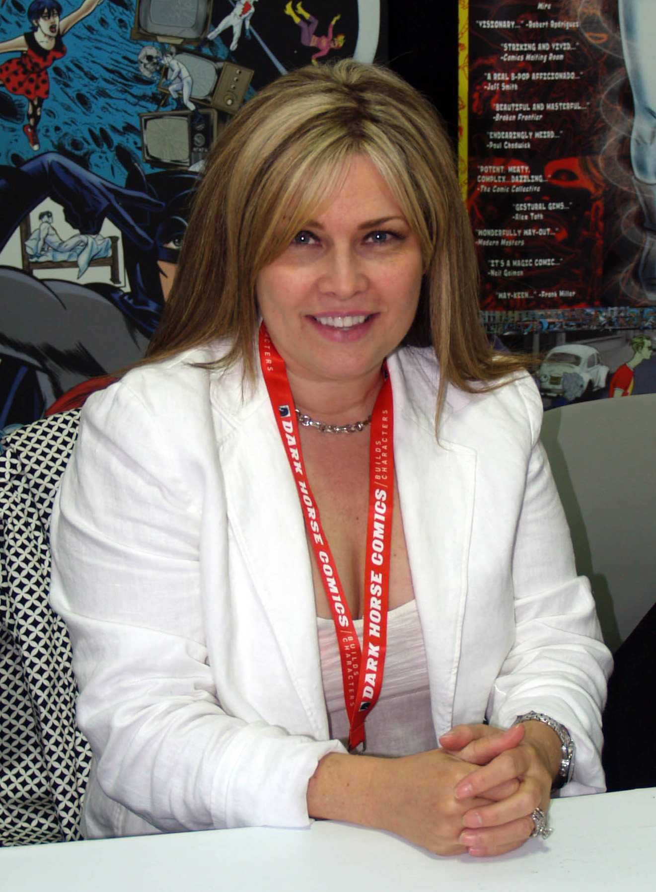 Comics artist Laura Allred on Saturday, June 14, 2014, Day 1 of Special Edition NYC, a comic book convention at the Jacob K. Javits Convention Center in Manhattan. This photo was created by Luigi Novi. It is not in the public domain, and use of this file outside of the licensing terms is a copyright violation.